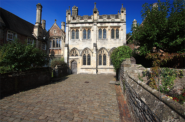 The Vicars Chapel, Vicars Close - Wells Situated at the end of the cul-de-sac that is Vicars Close, is a former private chapel that is now used as a schoolroom. It was built for Bishop Bubwith or Bishop Stafford in c.1424-1430. Grade I Listed.